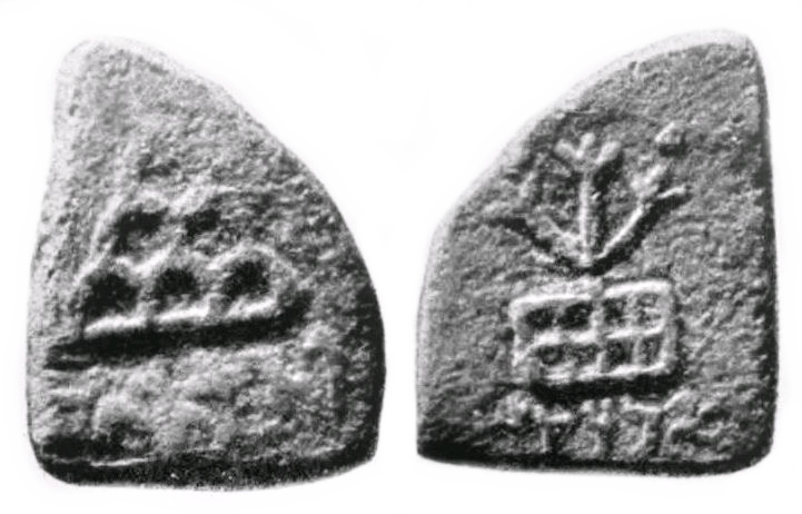 Coin of Agatocles (180-190 BCE). An six-arched hill symbol surmounted by a star. Kharoshthi legend Akathukreyasa "Agathocles". Tree-in-railing, Kharoshthi legend Hirañasame.(Monnaies Gréco-Bactriennes et Indo-Grecques, Bopearachchi, p.176)